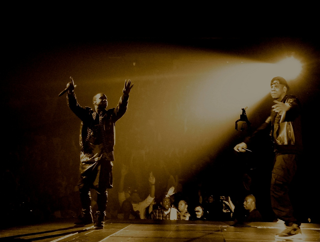 Jay-Z and Kanye West performing in Greensboro, North Carolina on their Watch the Throne Tour, 2011.